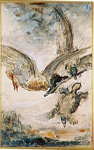 Water colour from the series illustrating the Fables of La Fontaine by Gustave Moreau, 1879 (private collection)